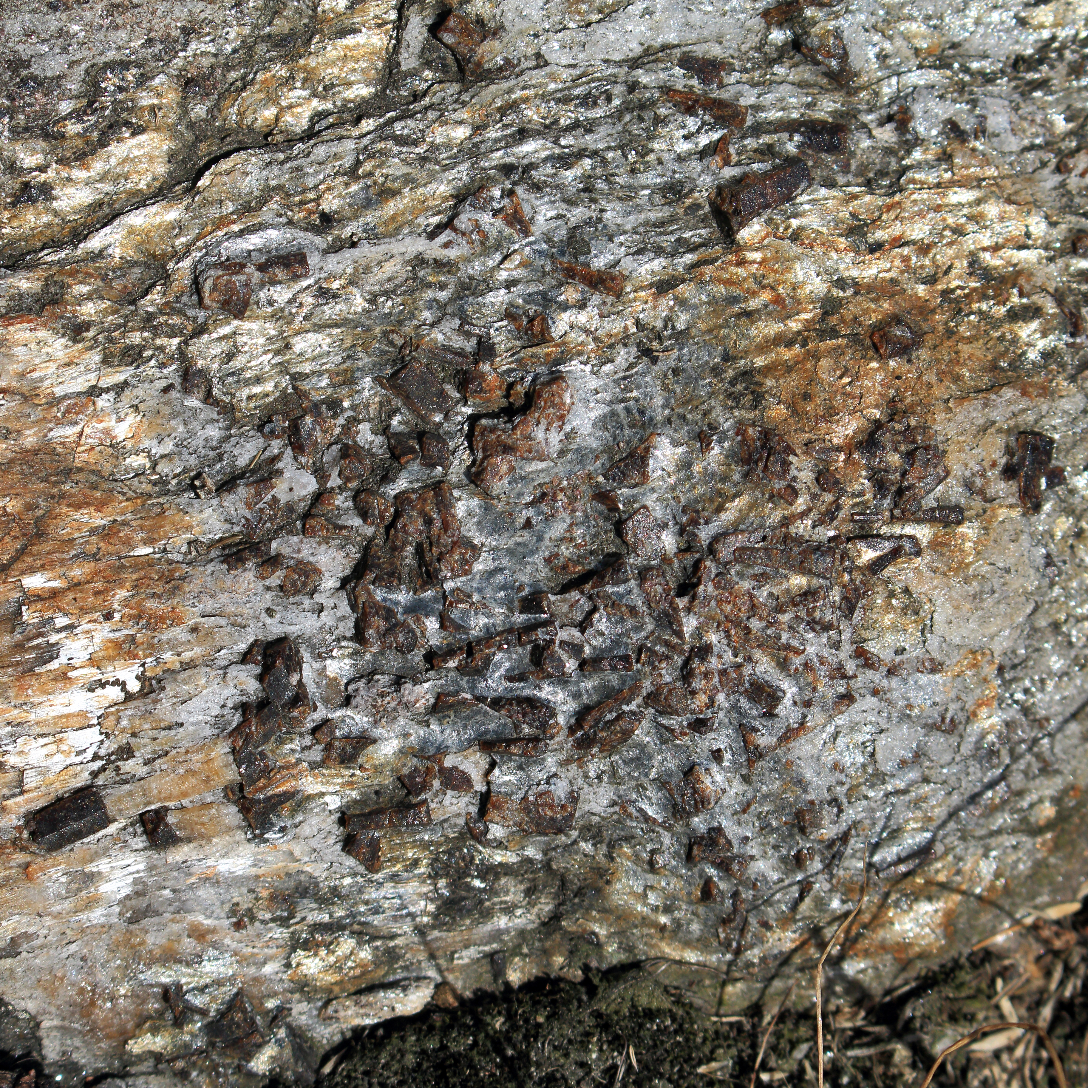 Staurolite crystals in schist. Obří skály, Šerák.